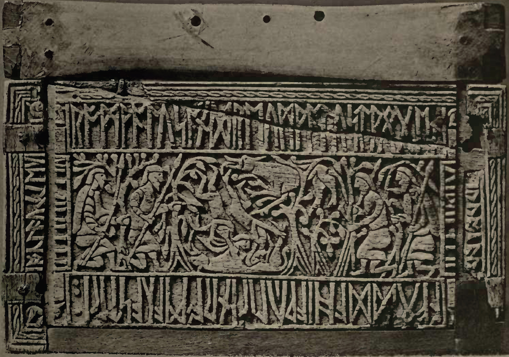 The left panel of the Franks Casket.